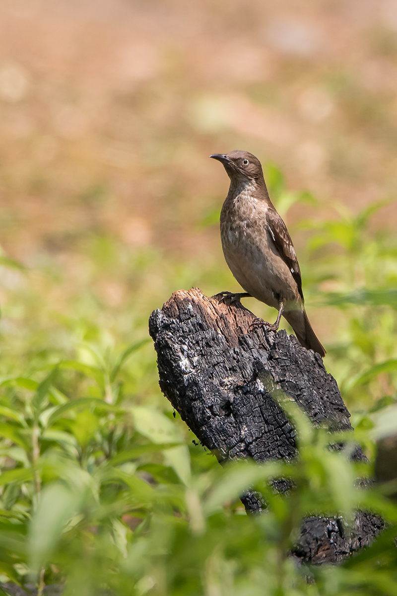 From Sattal India